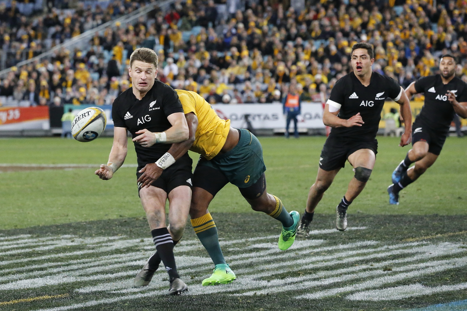 2017.08.19.21.47.20-Beauden Barrett 2017 Rugby Championship, Bledisloe 1, Australia vs New Zealand, 19th August, ANZ Stadium, Sydney